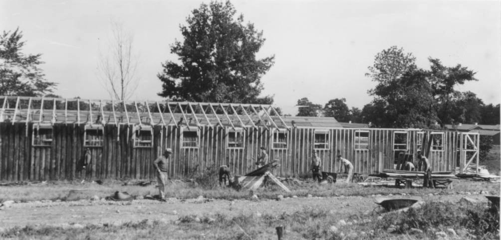 Workers completing a Civilian Conservation Corps barracks in 1934 at Green Lakes State Park in Fayetteville, New York. The park was the site for project SP-12 and the associated CCC camp. The barracks were occupied at various times by CCC companies 1203 and 2211 until the camp's closing in November, 1941. After the entry of the United States into World War II in 1941, the facilities were re-opened to house German prisoners of war.